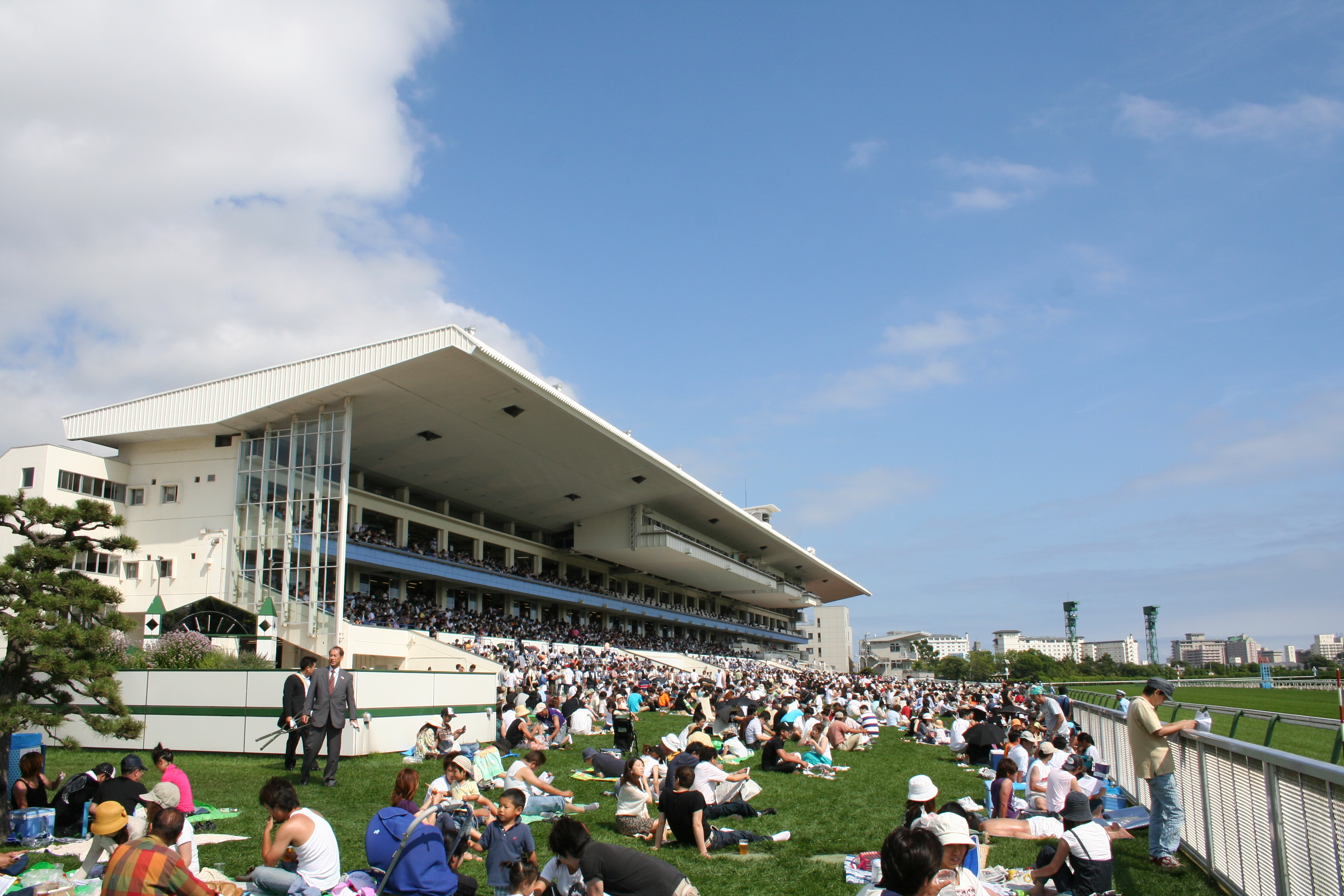 Hakodate Racecourse